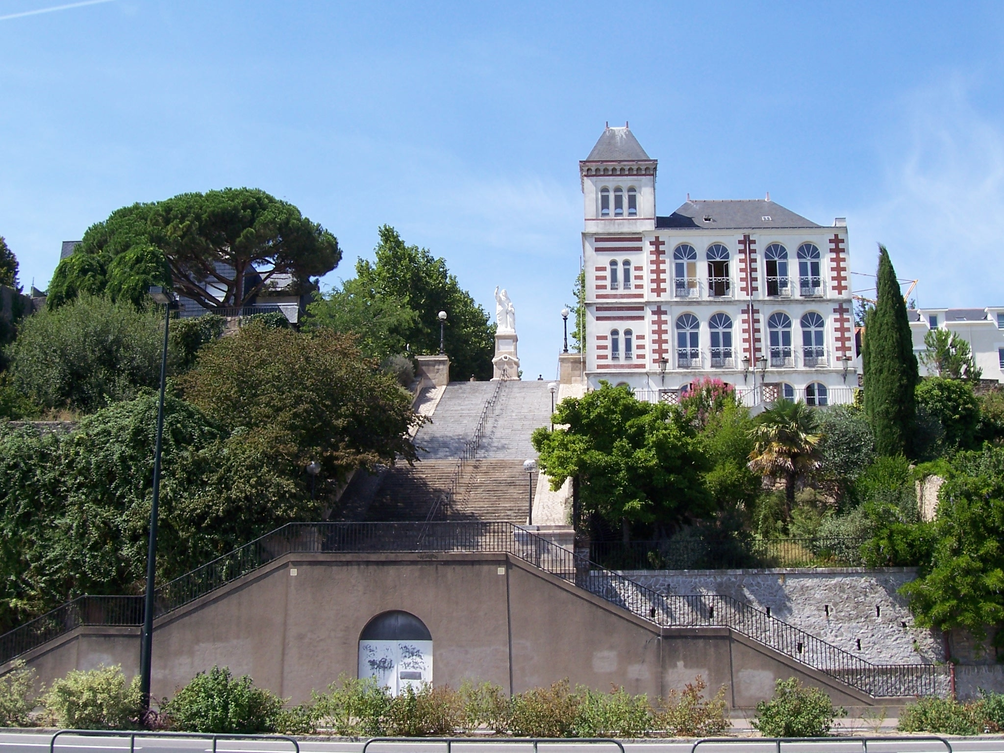 The Jules Verne museum on top of the Butte Sainte-Anne stairway that leads to the statue of Saint Anne blessing the Loire river and its sailors.